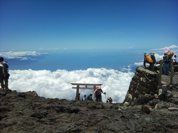 A view east from Kusushi-jinja, the northeastern summit of Mount Fuji.